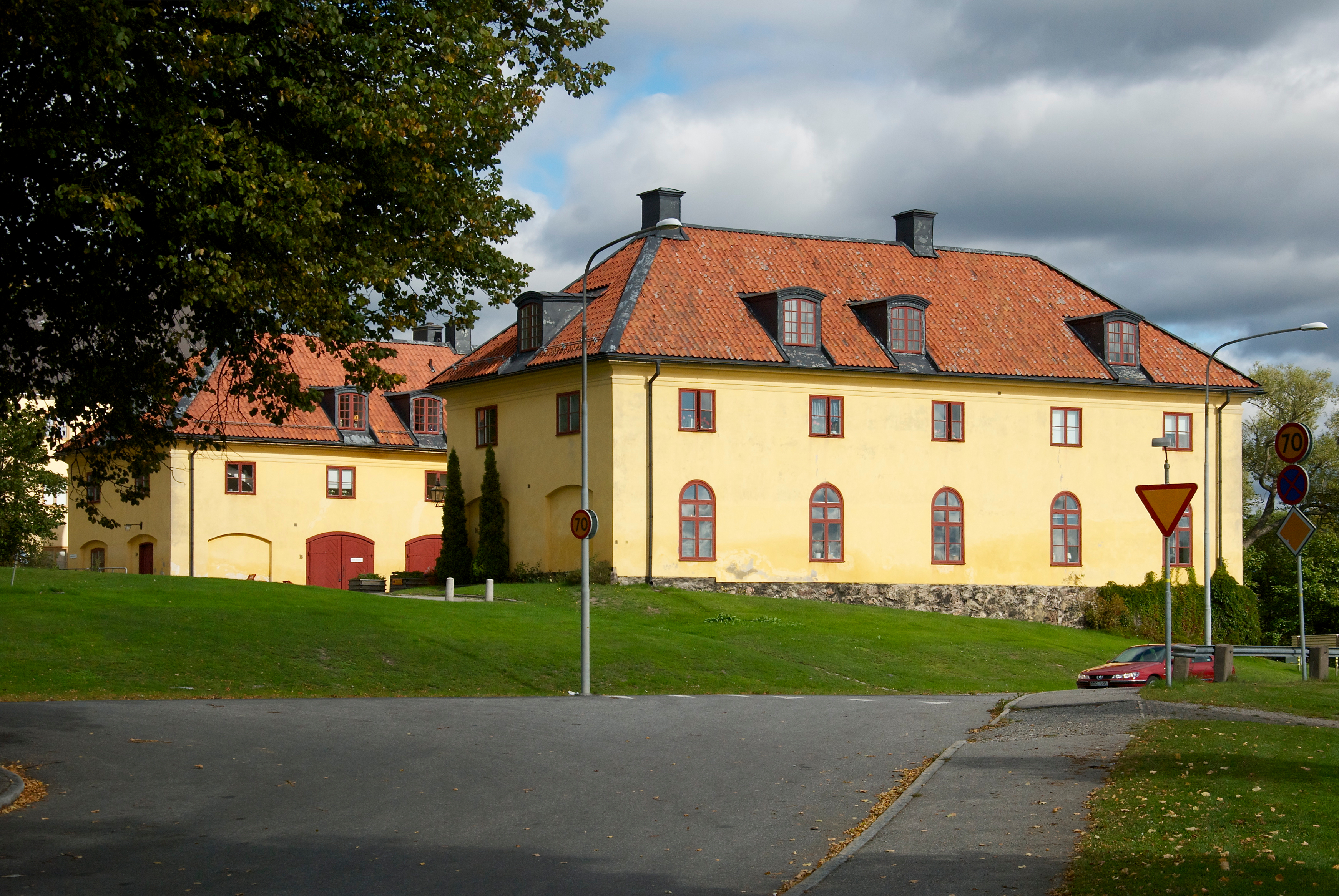 Hertigarnas stall